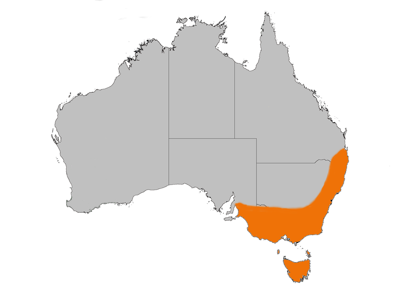 Distribution of the Flame Robin